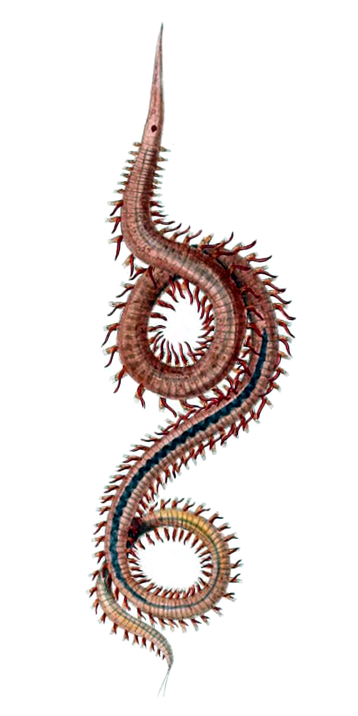 A depiction of Glycera tridactyla from the original description.